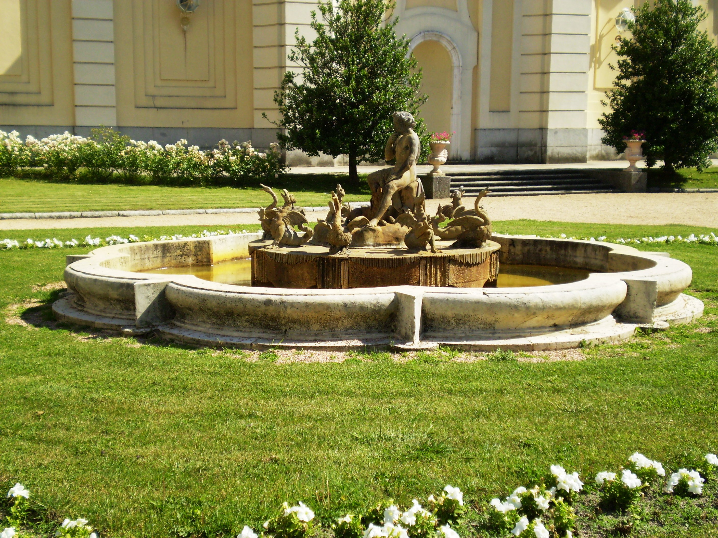 Fountain in the Royal Palace of El Pardo, Madrid, Spain